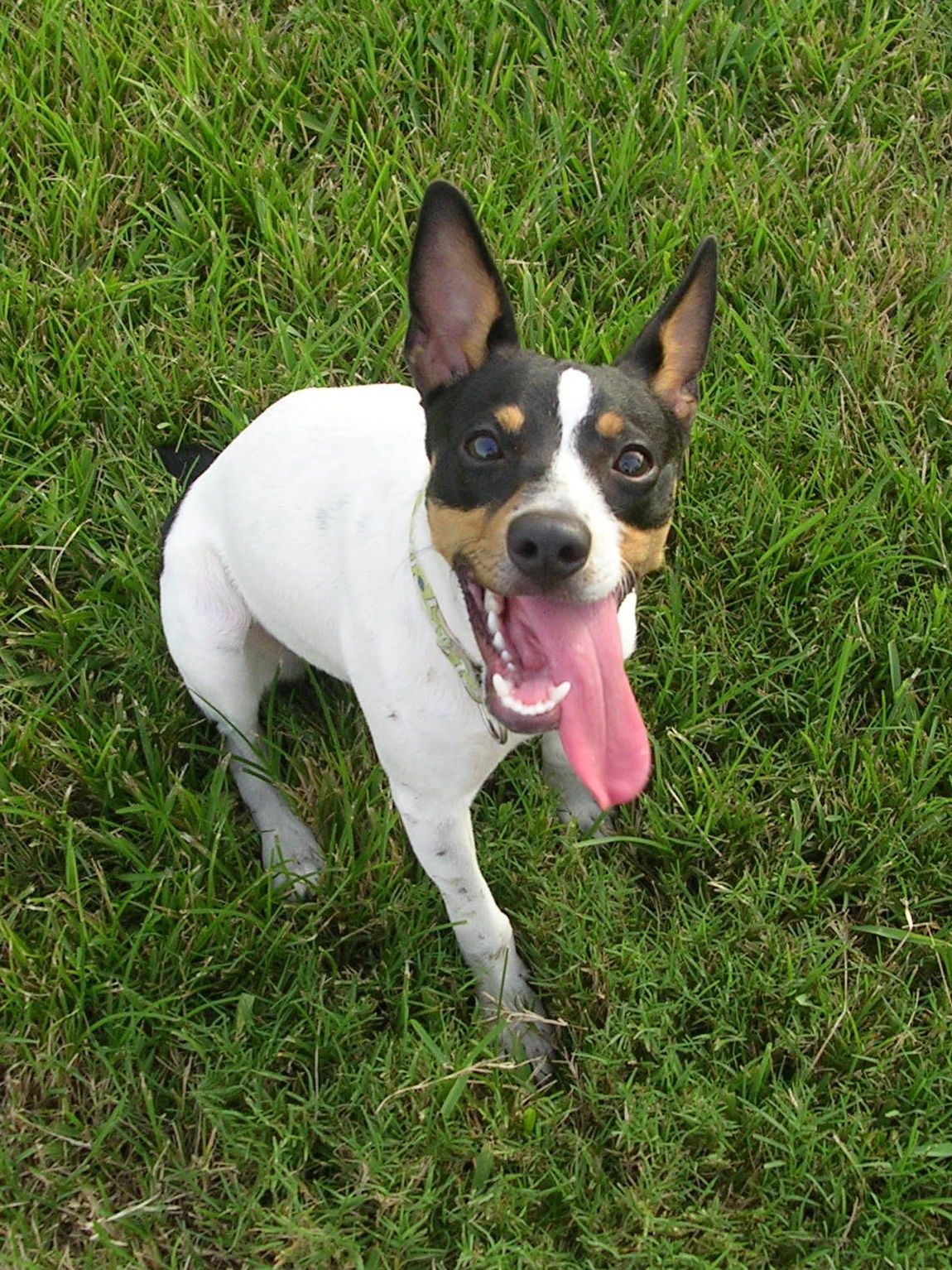 Photo taken of Rat Terrier, "Shorty," demonstrating upright ears.